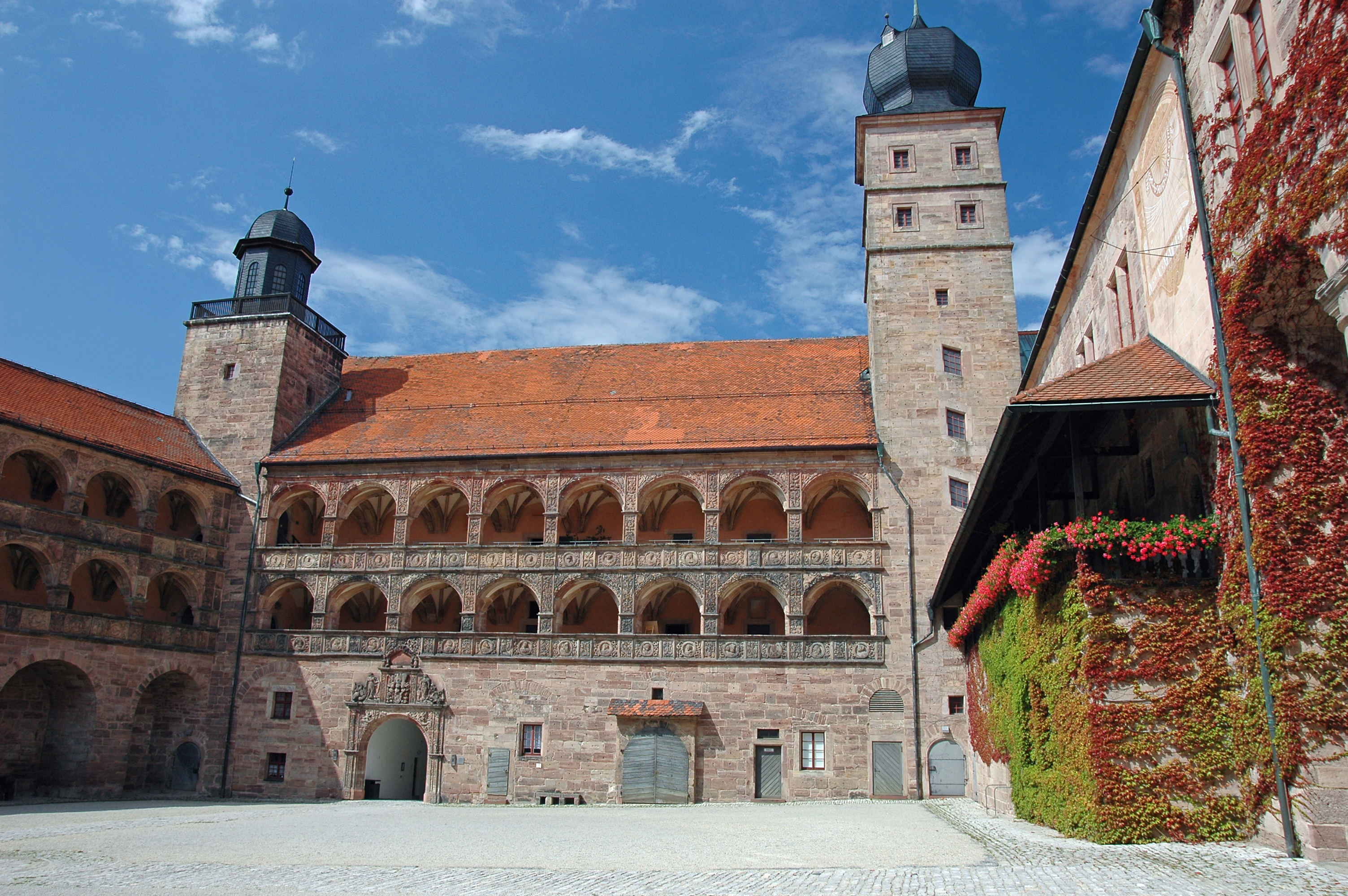 Kulmbach Plassenburg inner courtyard